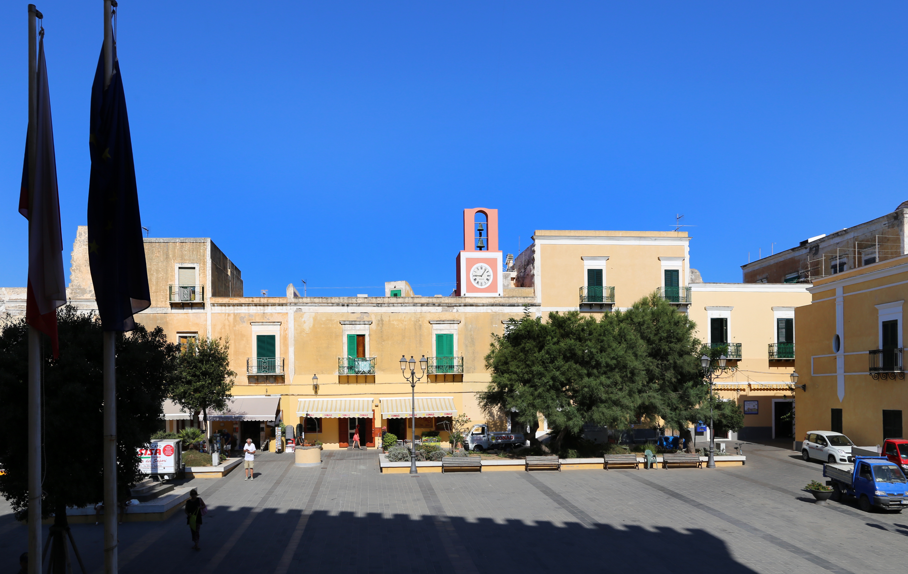 Ventotene